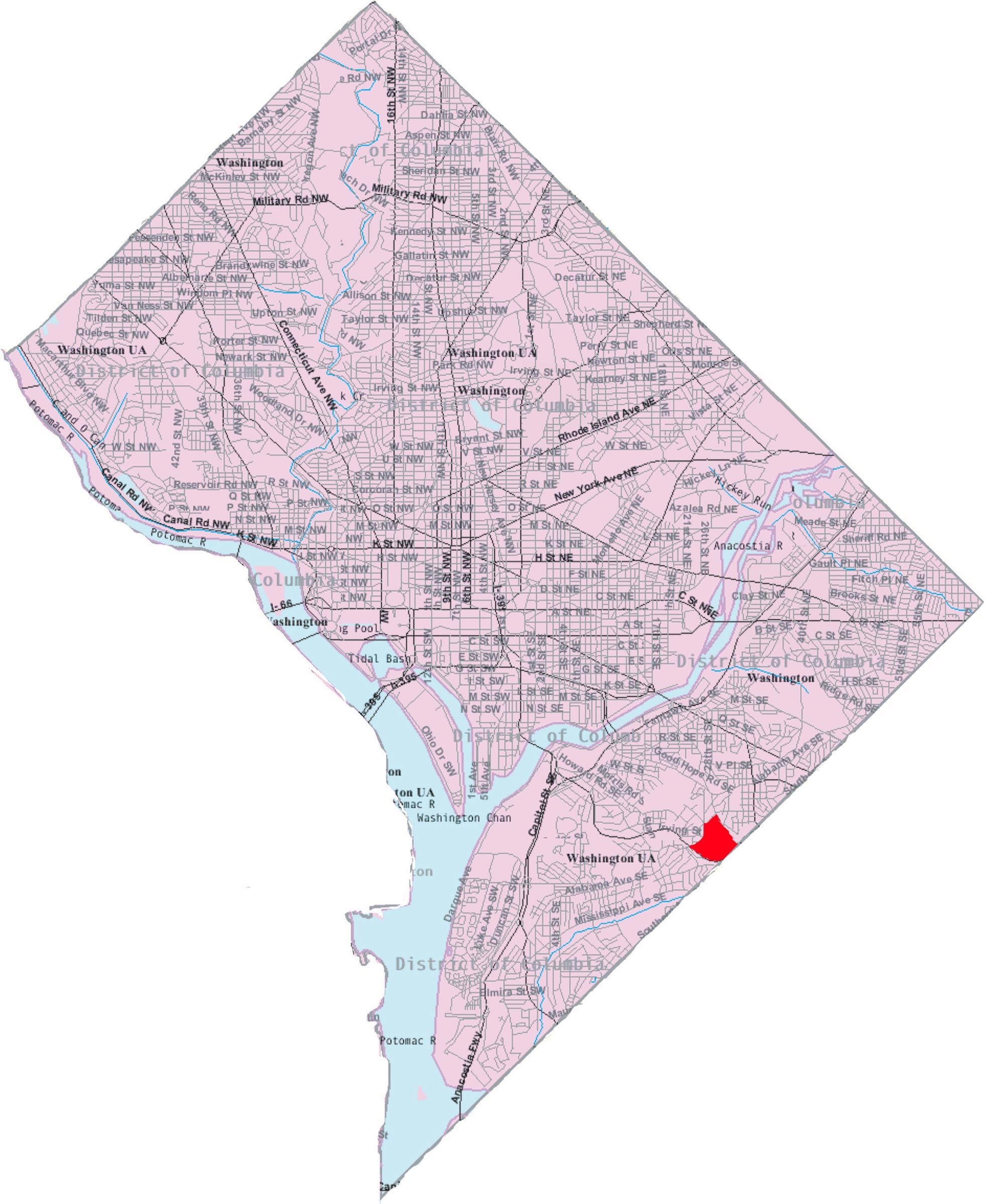 This image is a modified version of a self-generated reference map from the U.S. Census Bureau's American Factfinder at by Wikipedia user Msclguru.